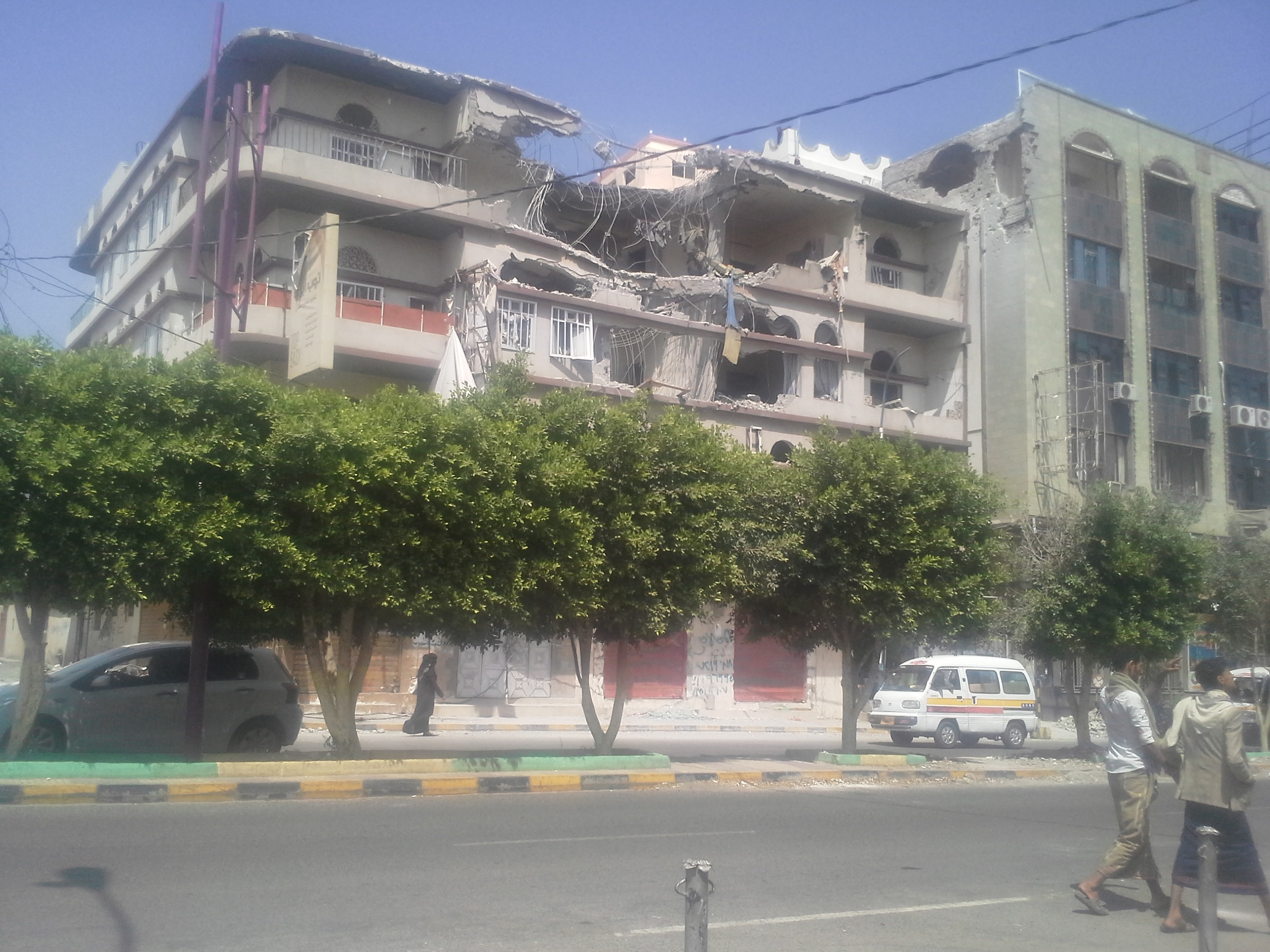 Apartment building destroyed in an 05.09.2015 in Sana'a - Hadda Street.